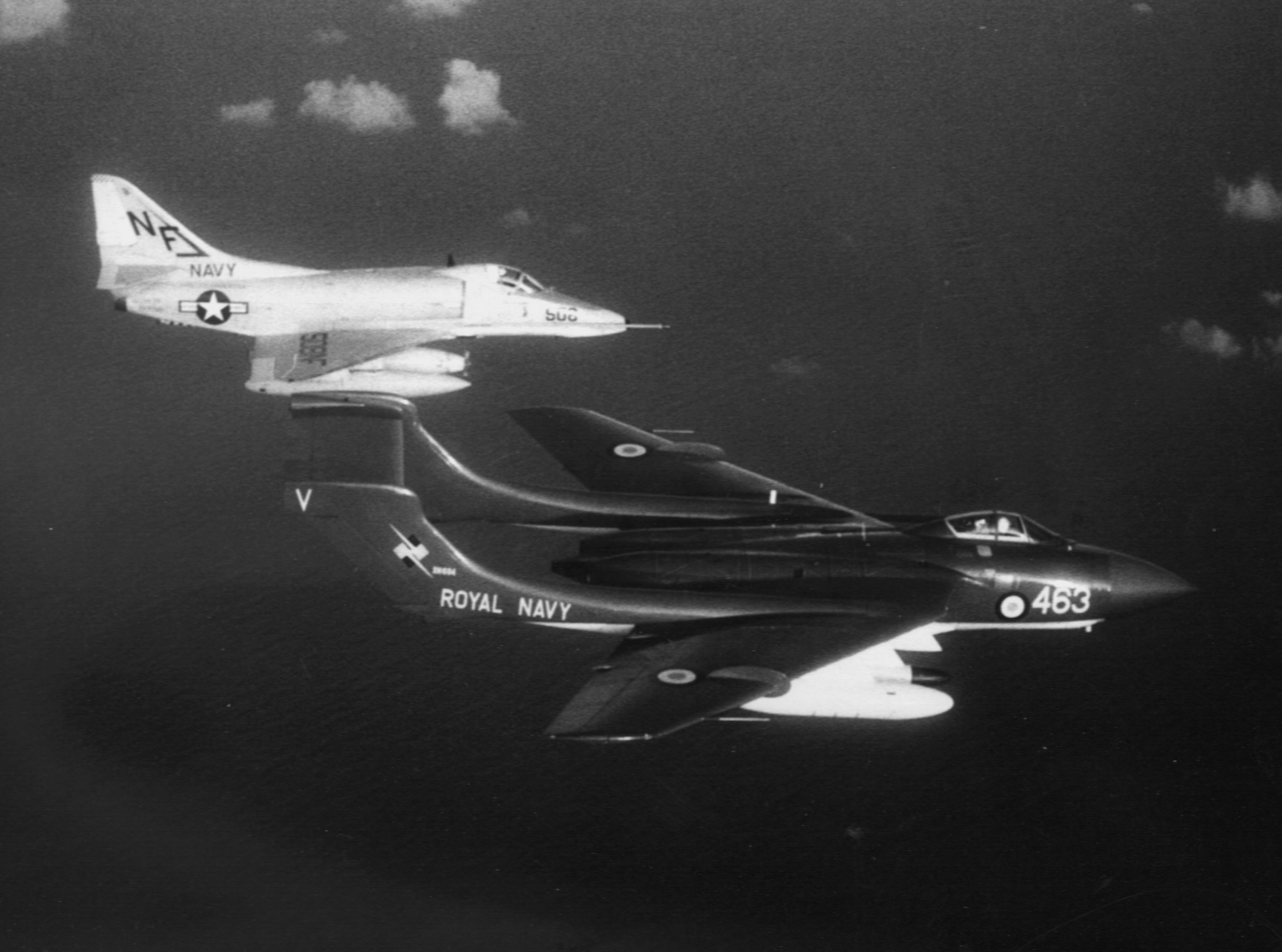 A Royal Navy De Havilland Sea Vixen FAW.1 (s/n XN694) of 893 Naval Air Squadron in flight with a U.S. Navy Douglas A-4E Skyhawk from Attack Squadron VA-55 "Warhorses". 893 NAS was assigned to the aircraft carrier HMS Victorious (R38), VA-55 was assigned to Carrier Air Wing 5 (CVW-5) aboard the USS Ticonderoga (CVA-14) for a deployment to the Western Pacific and Vietnam from 14 April to 15 December 1964.